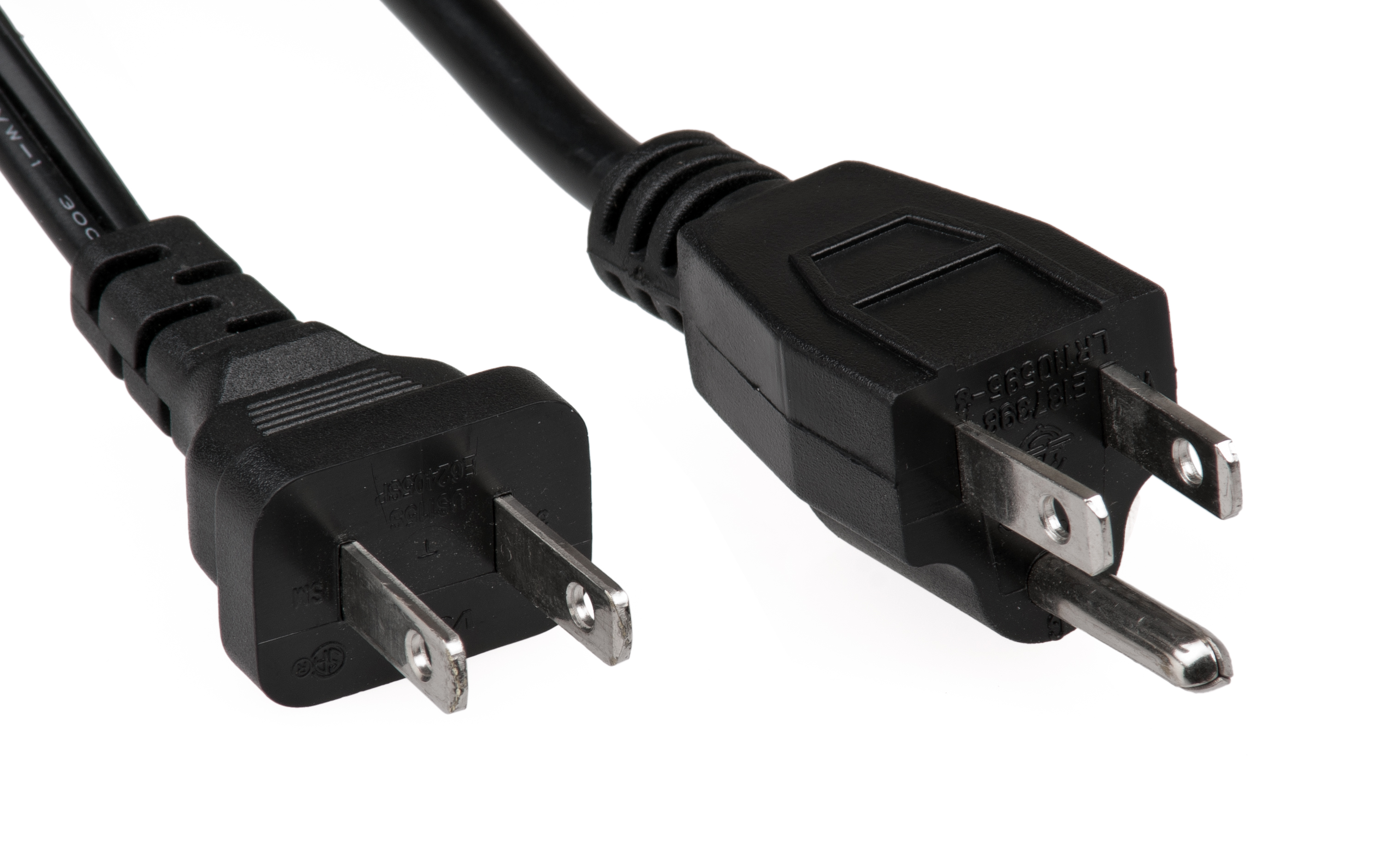 A set of North American AC power plugs, a regular and an grounded plug.